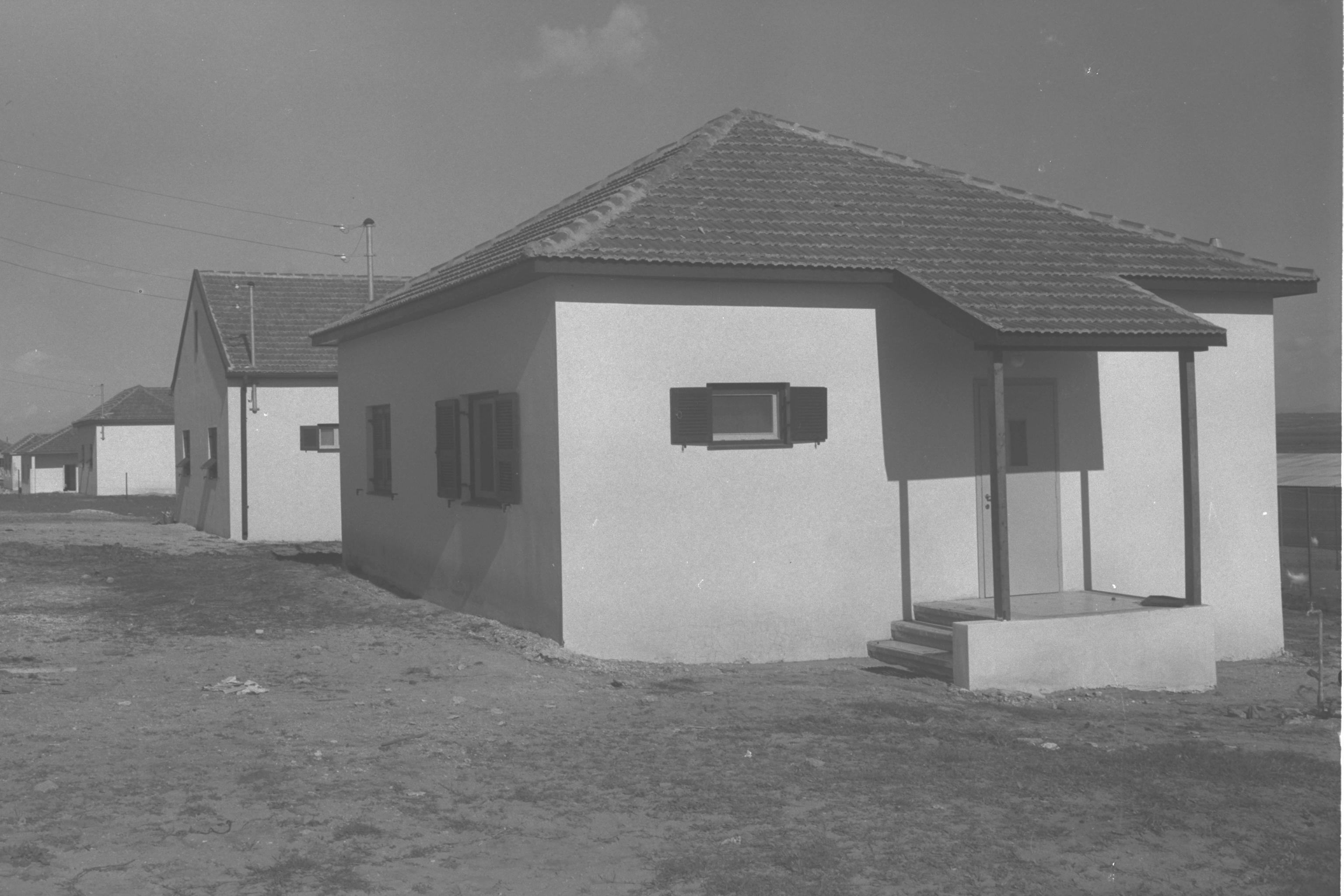 A LINE OF HOUSES AT KFAR SHMARYAHU. בתים בכפר שמריהו.